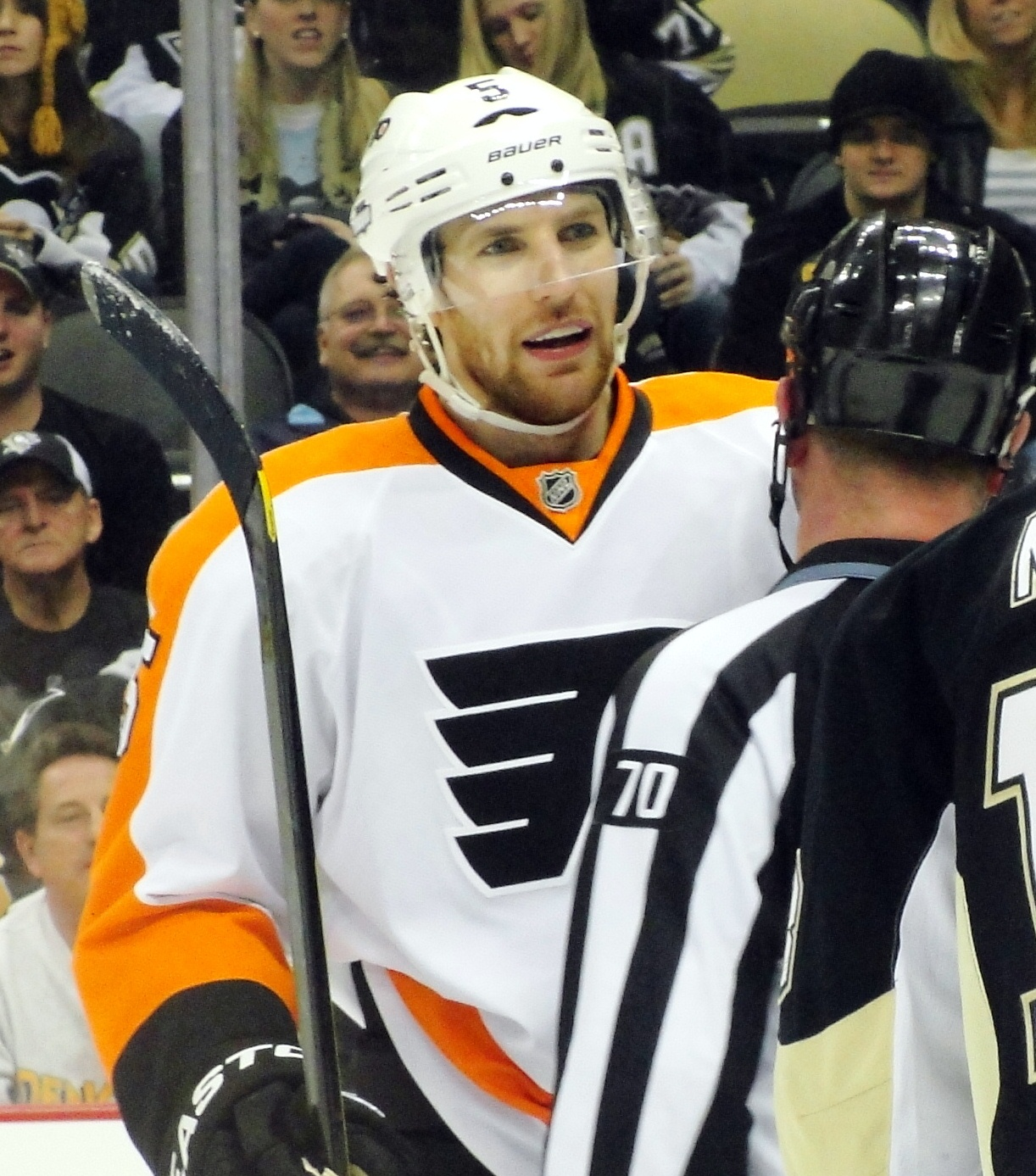 Philadelphia Flyers defenseman Braydon Coburn skates against the Pittsburgh Penguins, Decmeber 29, 2011 at Consol Energy Center in Pittsburgh, PA.